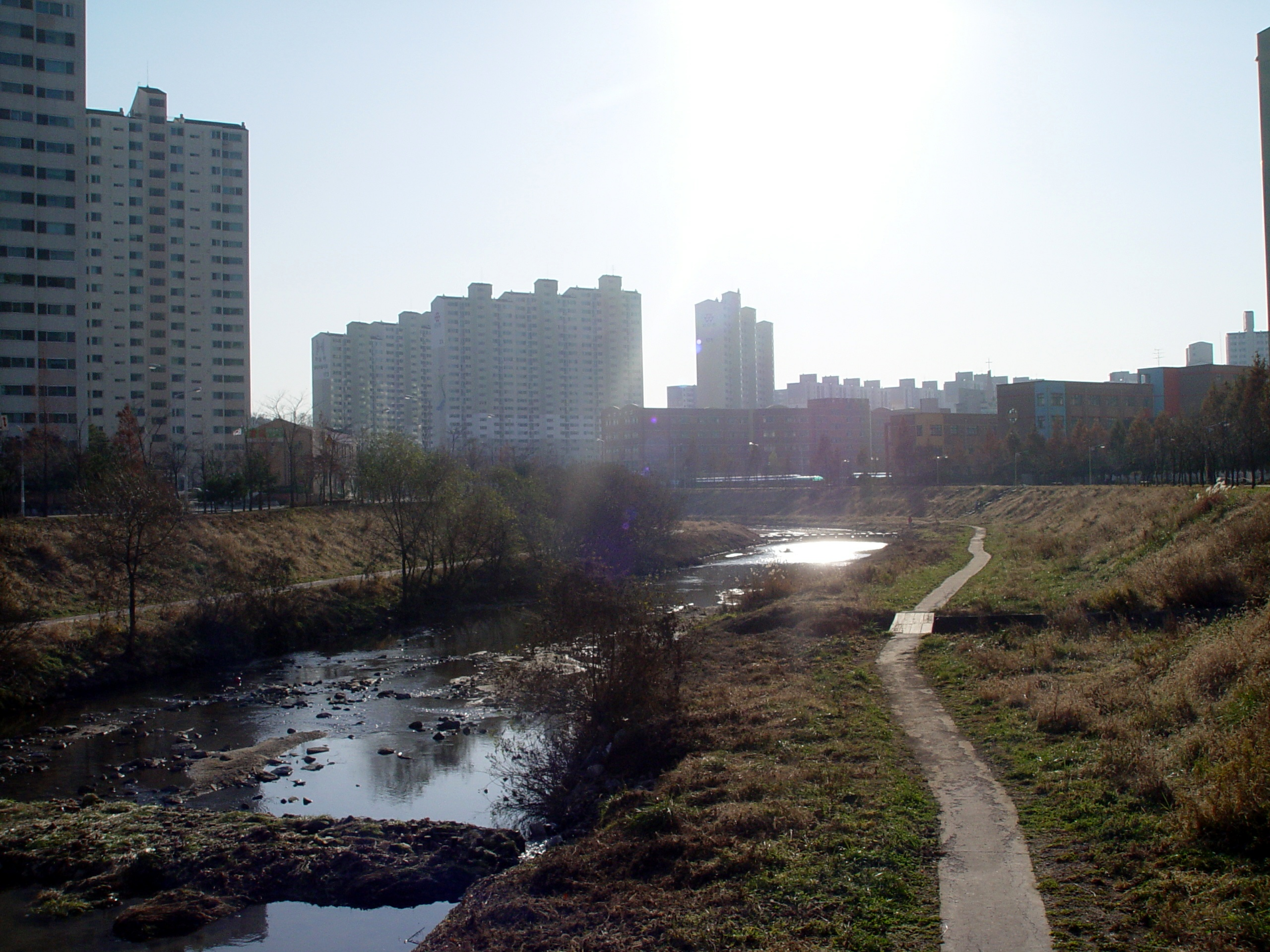 Looking_downstream_from_Cheoncheongyo_(Bridge),_Suwon, along the Jungbocheon